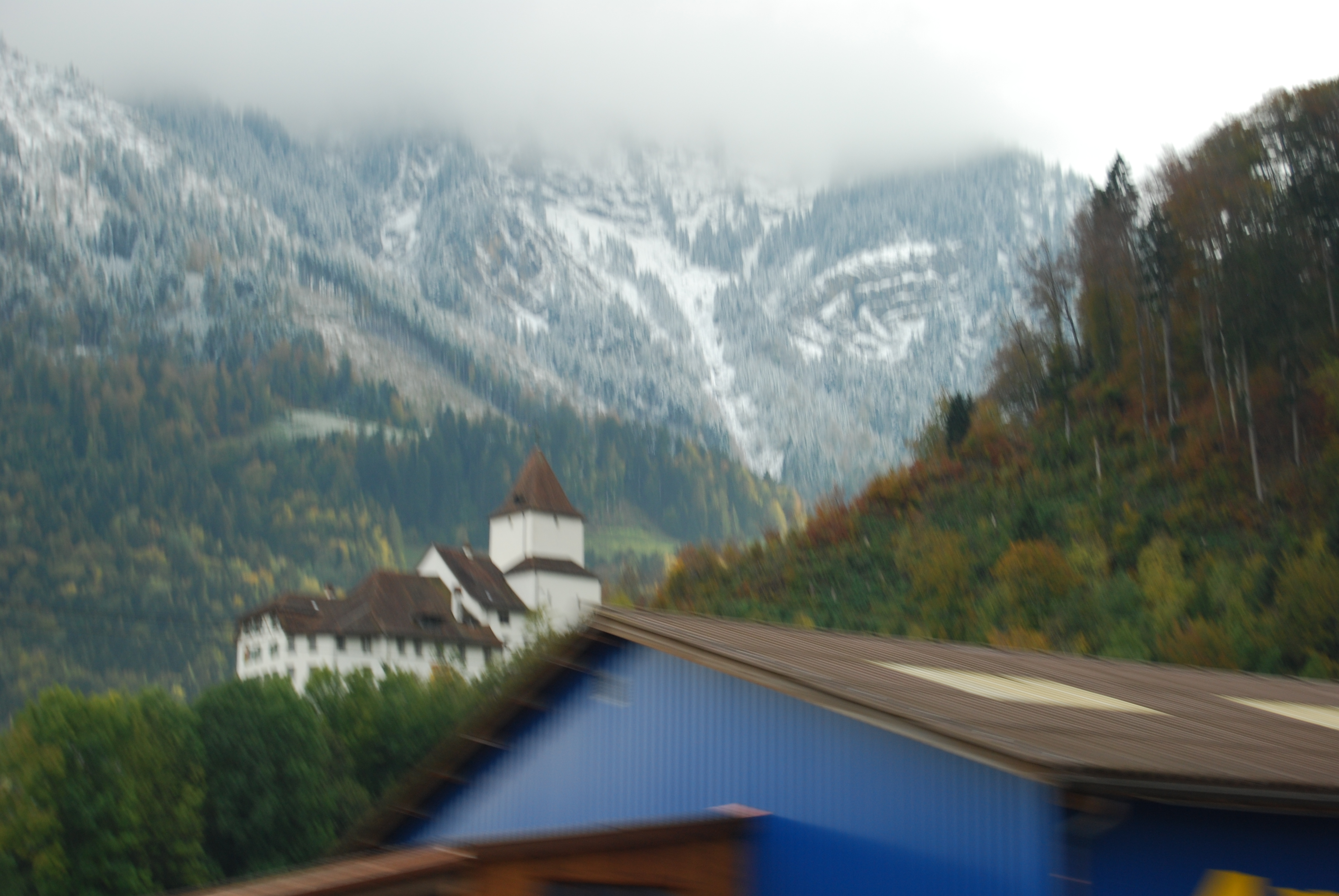 Castle Wimmis, canton of Bern, SwitzerlandEsperanto: Kastelo Wimmis, Kantono Berno, Svislando